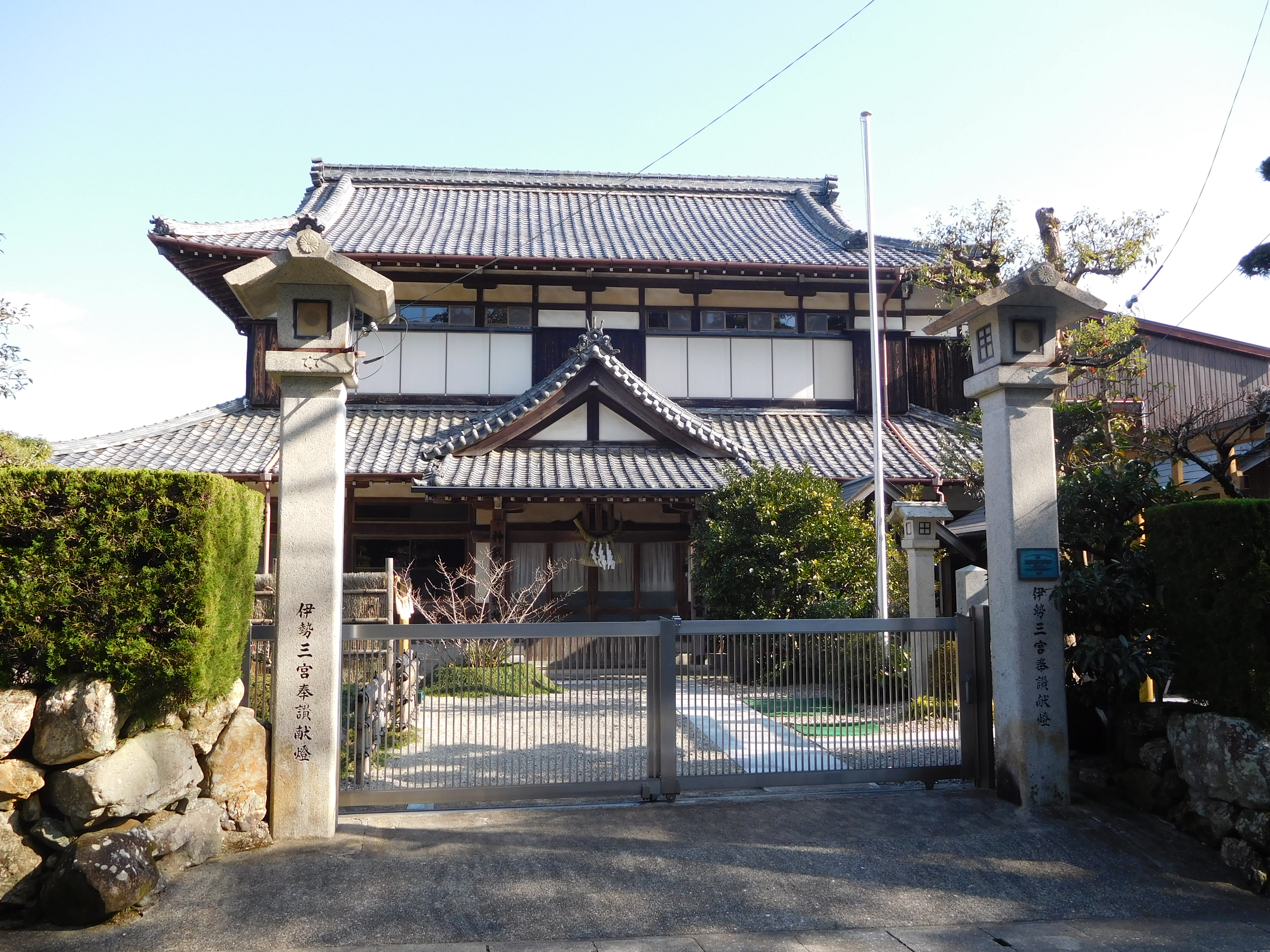 This is the Jimmu Sanken Dojo, which is located in Isobecho-Kaminogo, Shima, Mie, Japan.